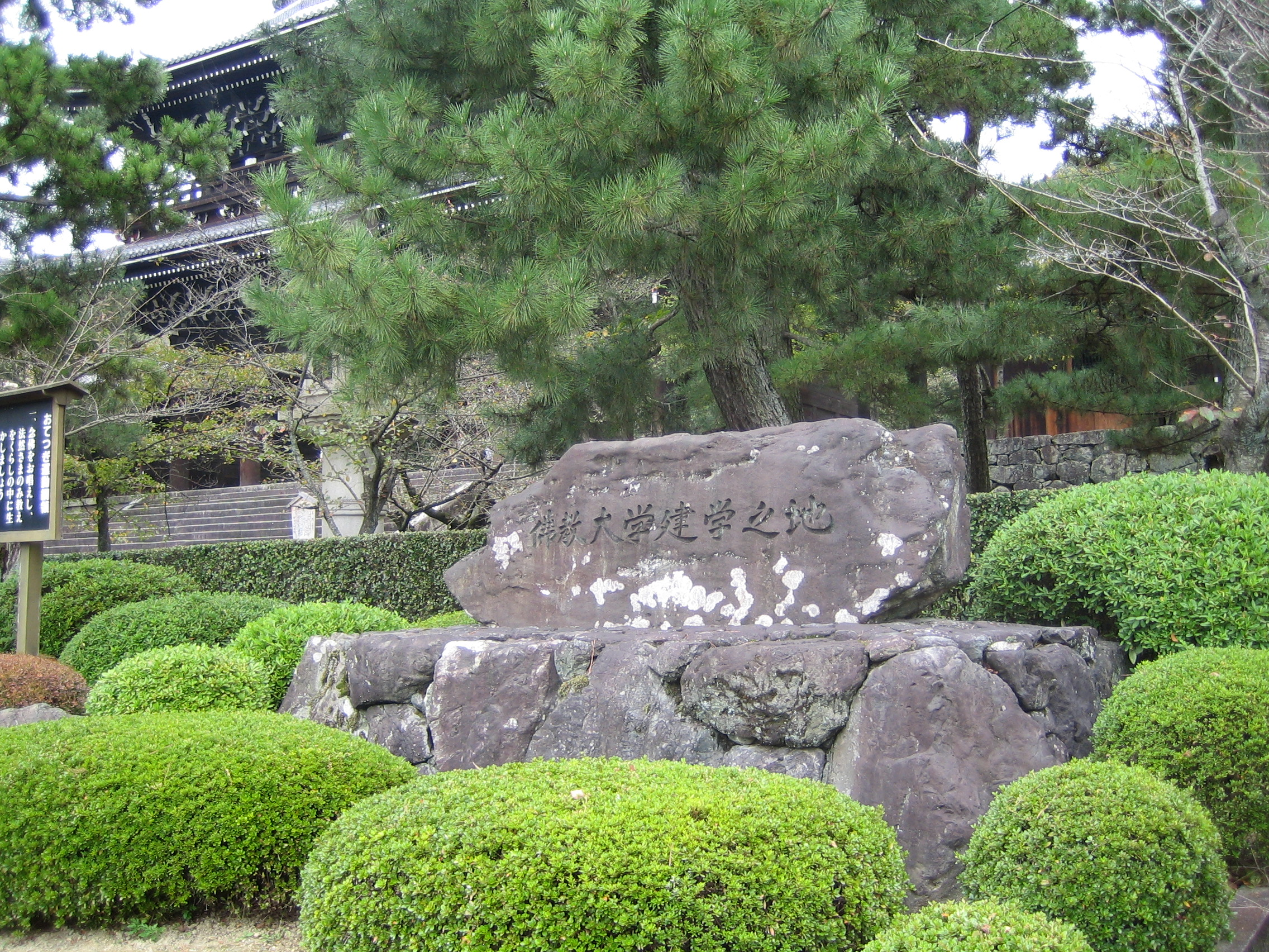 The monument of the birthplace of Bukkyo University (佛教大学建学之地), at HigashiyamaKyoto, Prefecture|Kyoto, Japan